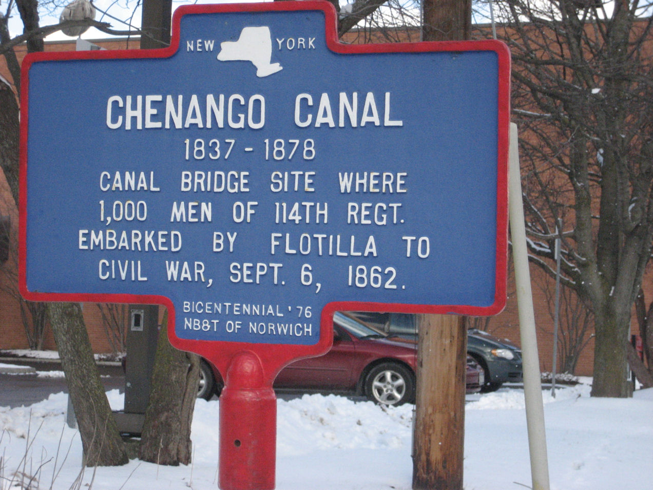 Historic marker of Chenango Canal 9, site of bridge where 1,000 men of the 114th Regt. NYS Vol. left by flotilla for the Civil War, Sept 6, 1862.